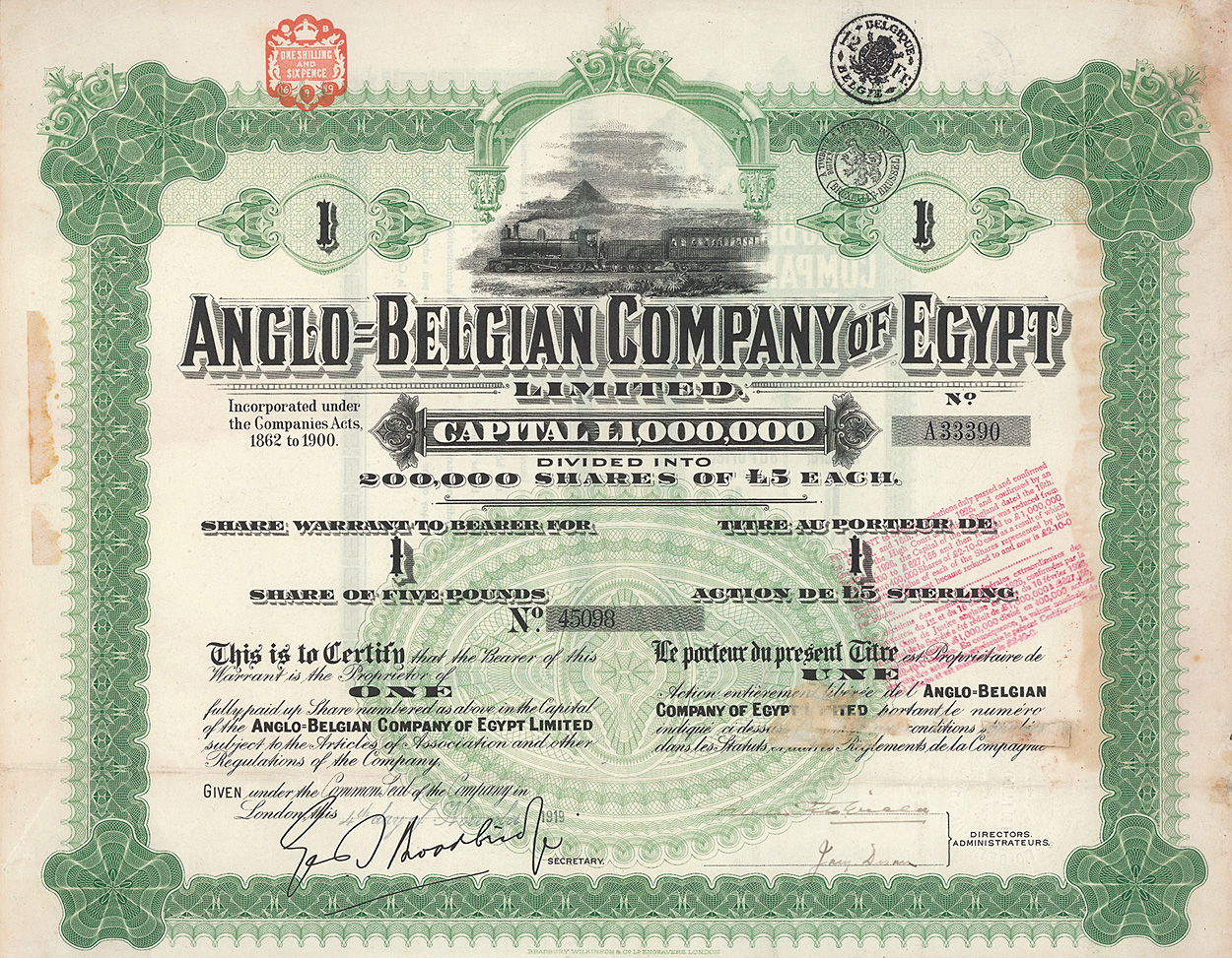 Historic stock exchange certificate of Anglo-Belgian Company of Egypt